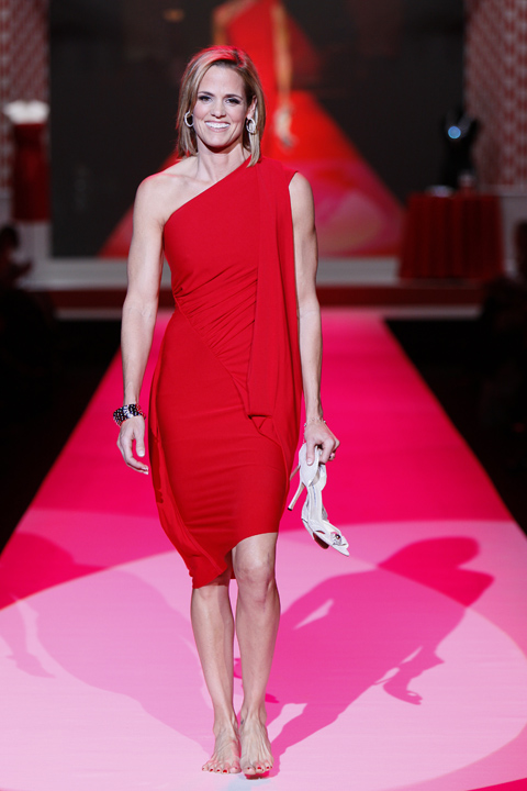 Dara Torres in Rachel Roy at The Heart Truth's Red Dress Collection 2010